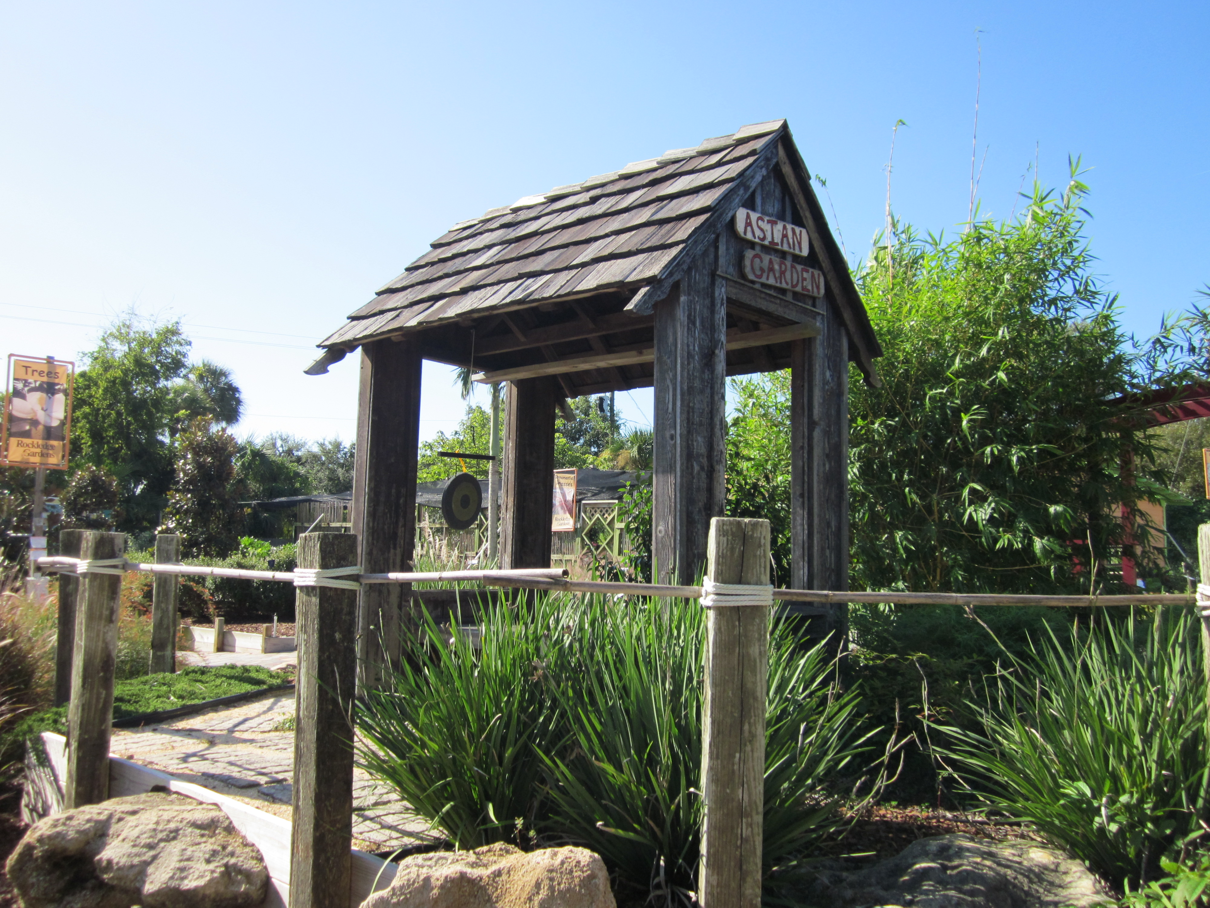 Asian Garden at Rockledge Gardens in Rockledge, Florida